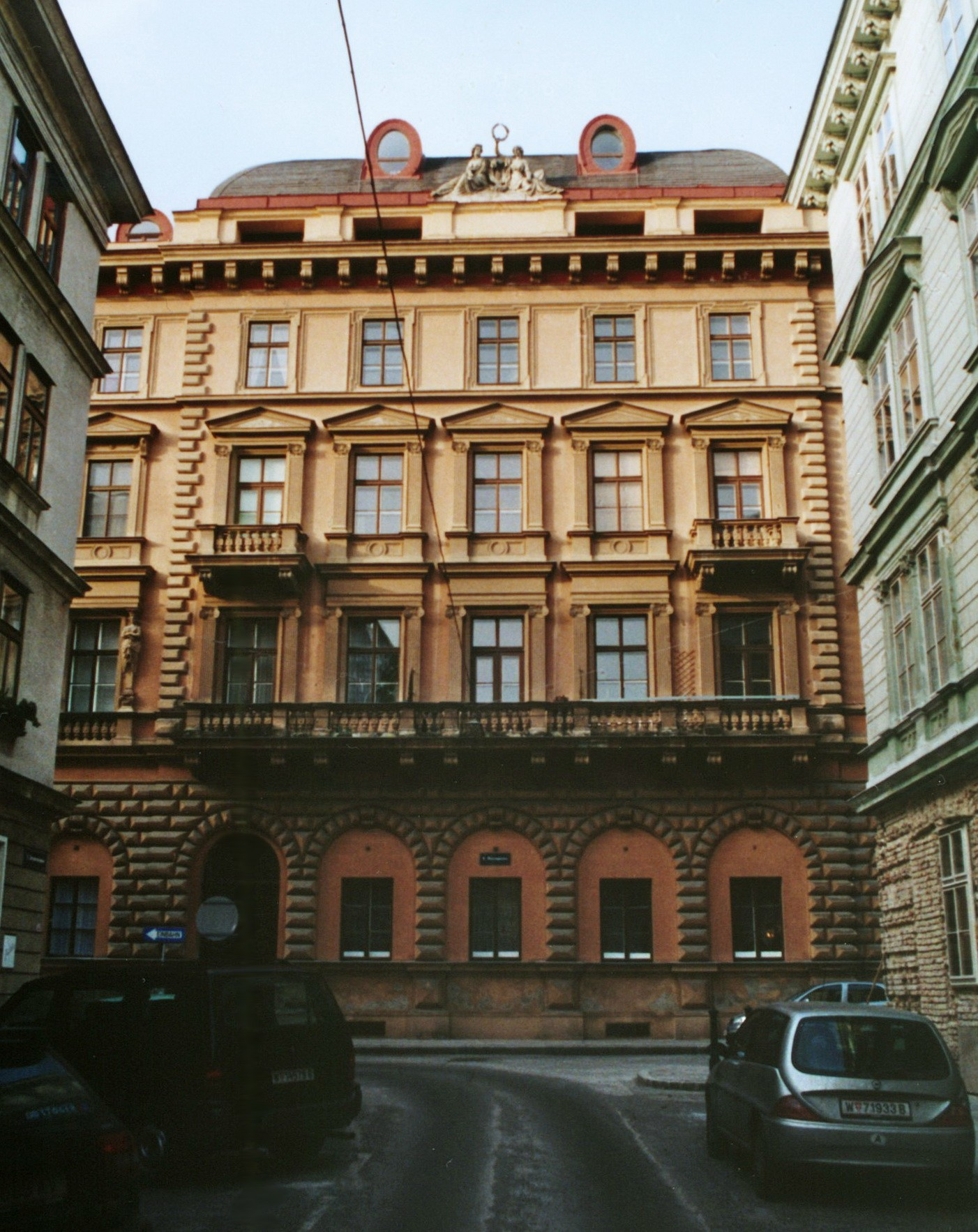 House Wasagasse 33 in Vienna, former theatre Neue Wiener Bühne.